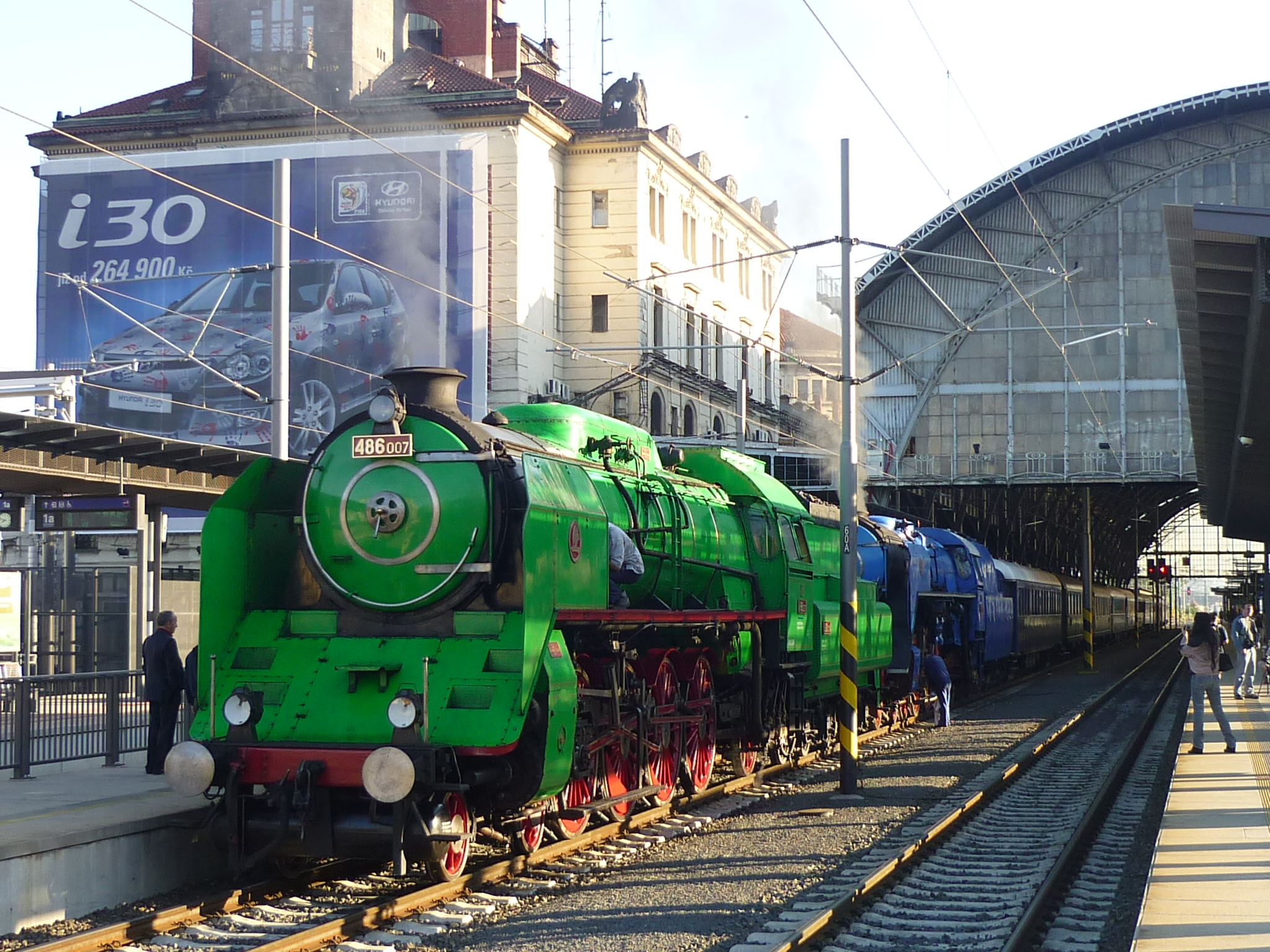 Winton train before departute in Prague